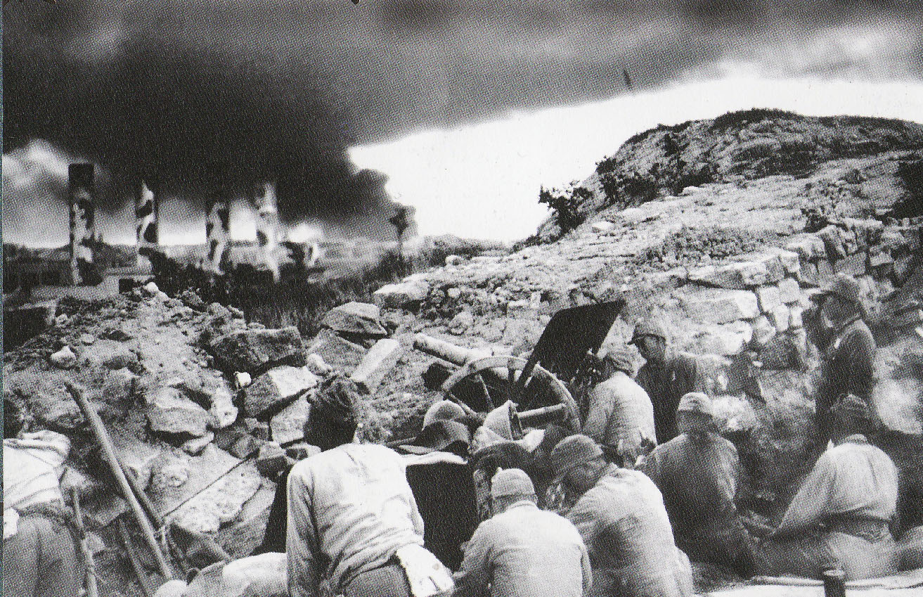 Japanese Army attacked North PointThe chimneys belong to North Point Power Station